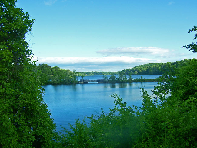 Photographed by Daniel Case 2006-06-10 from Route 6 near Carmel